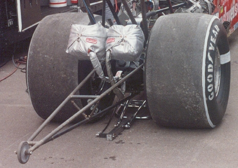 A crop of an image of Kenny Bernstein pit at Denver's Bandimere Speedway.